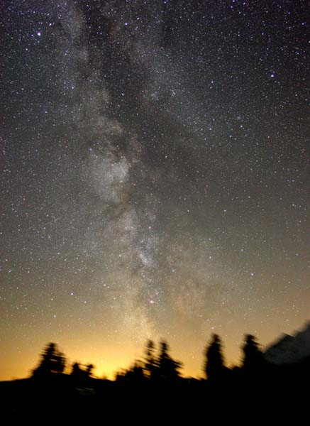 Milky Way seen from Earth